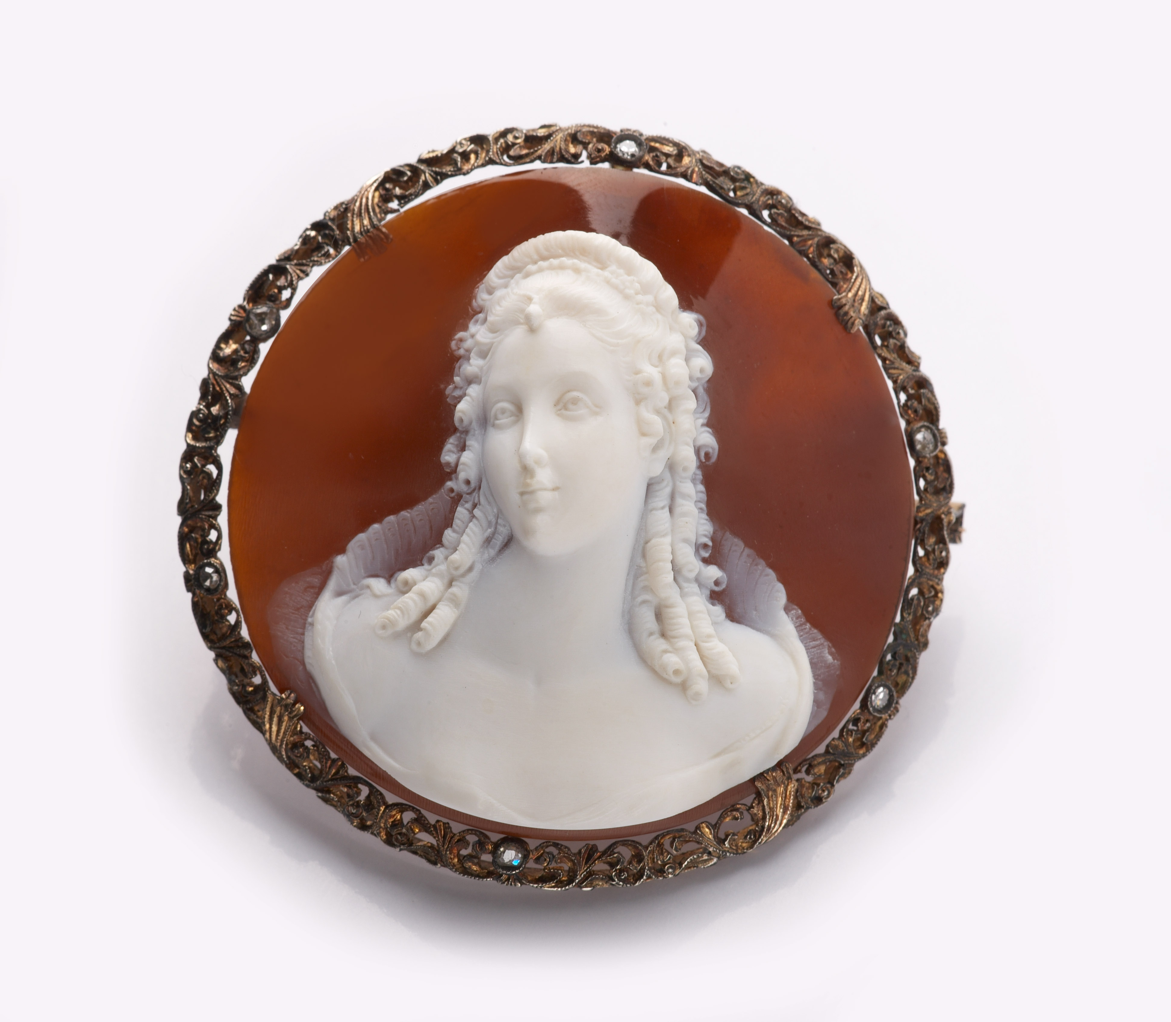 Giovanni Noto, shell-cameos (cassis madagascariensis), gold and diamonds, 1950, by the Italian ivory caver Giovanni Noto (1902-1985).